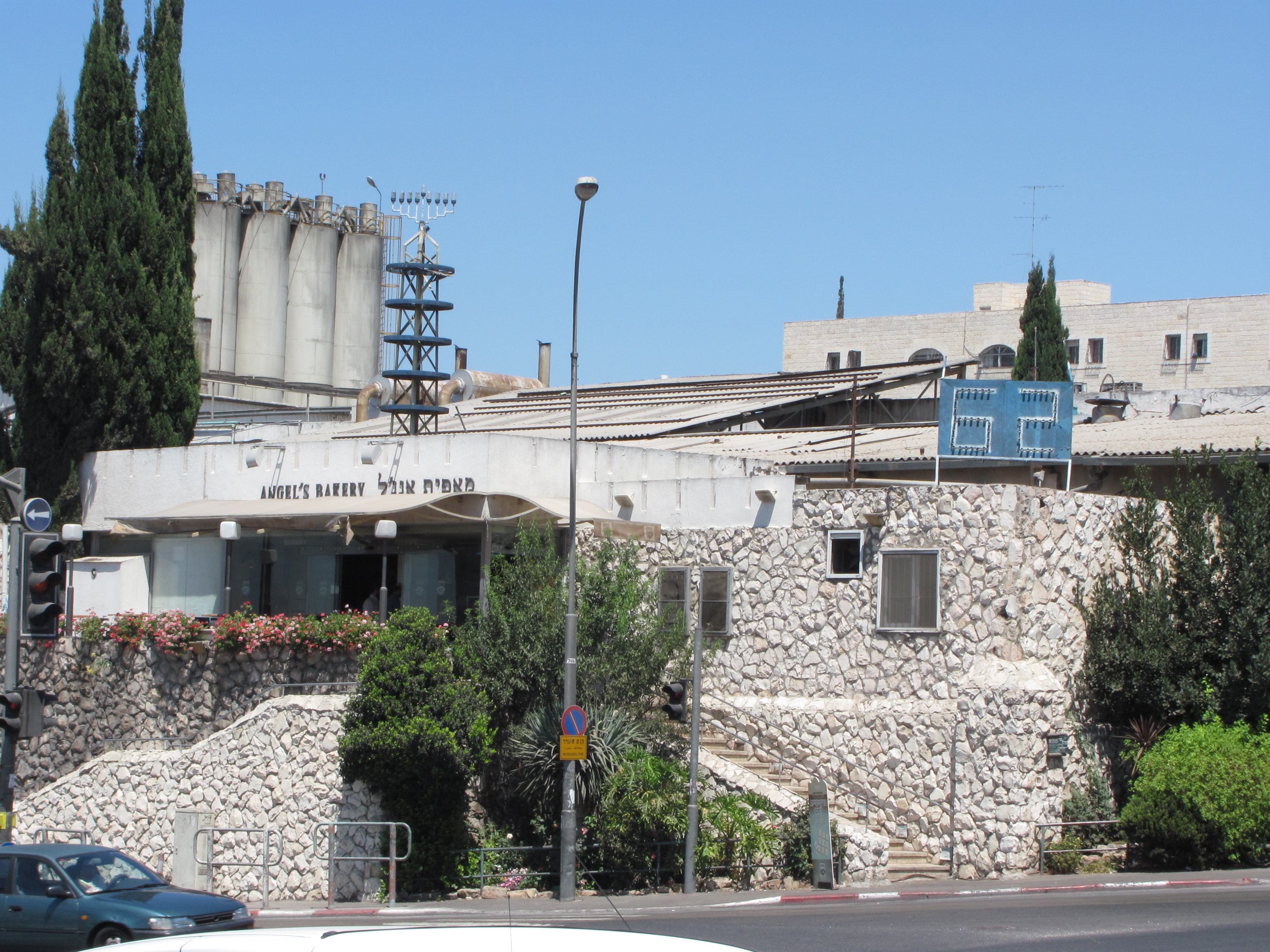 Angel Bakeries factory store at the corner of Beit Hadfus and Farbstein Streets in Givat Shaul, Jerusalem. Note the menorah on the roof which is lighted during Hanukkah, and the light board displaying the number "62", indicating 62 years since the founding of the State of Israel.